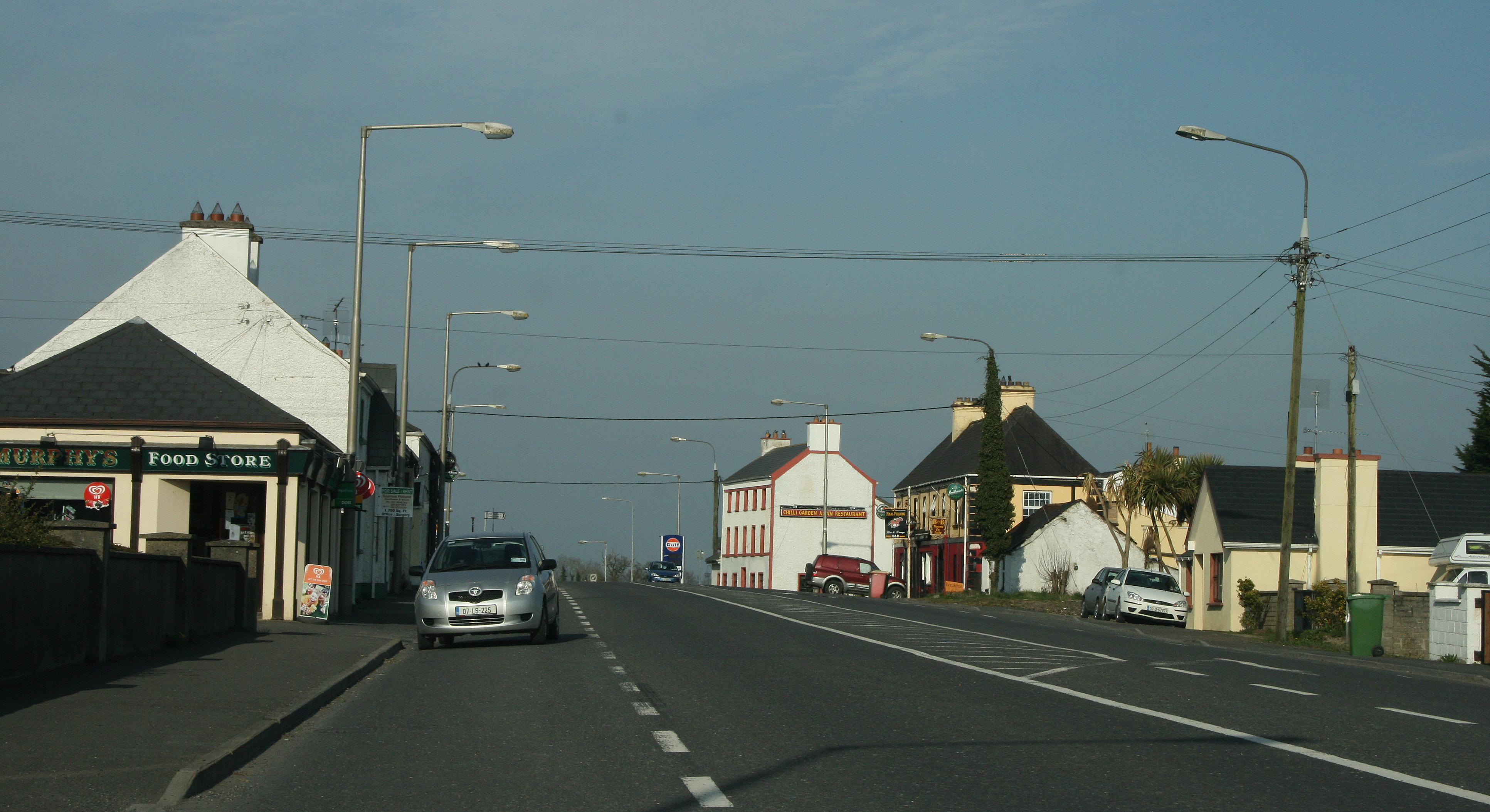 Ballybrittas, County Laois, near to Ballybrittas, Glenmalir and Jamestown, Laois, Ireland. A late afternoon version of the first geograph!